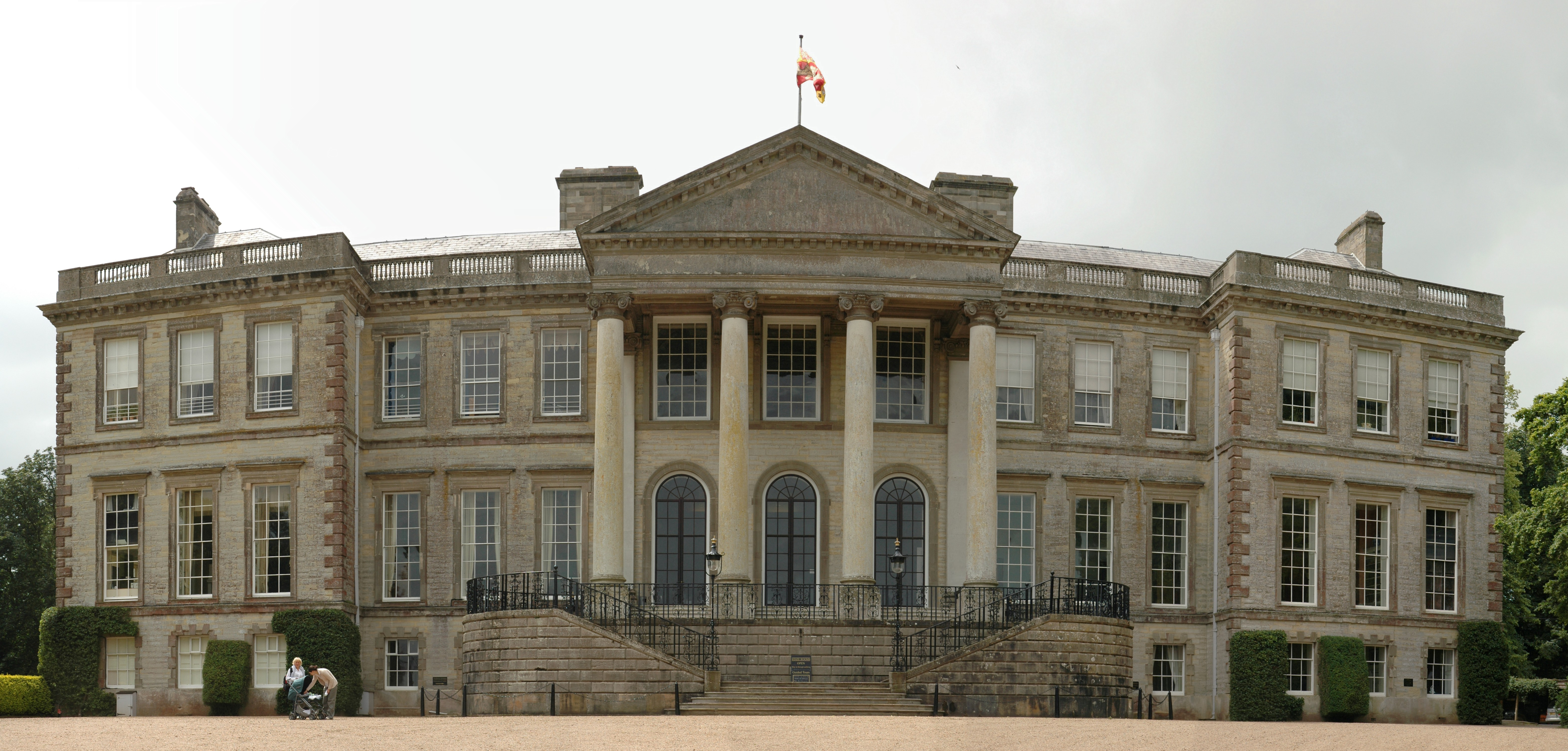 Panoramic view of Ragley Hall, UK